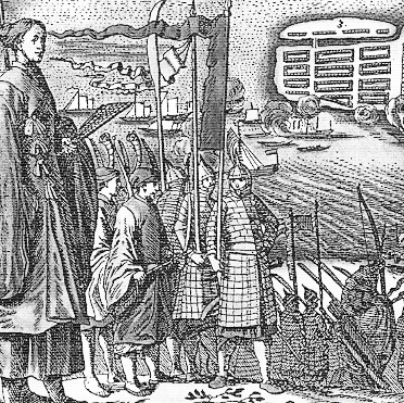 1600s Dutch lithographic illustration of Koxinga soldiers wearing iron plate armor and armed with huge knives.